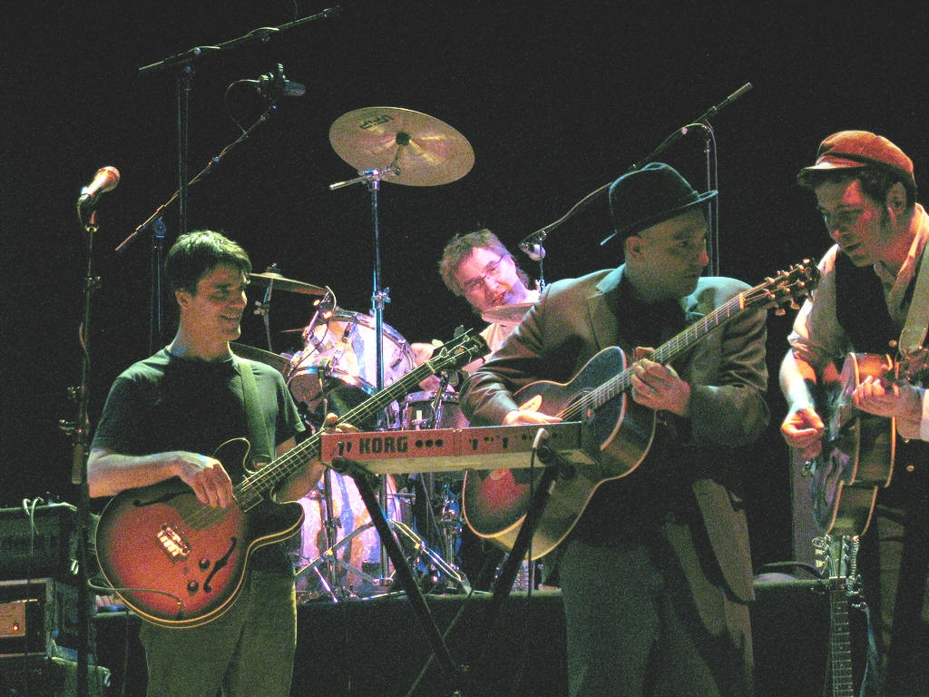 Rheostatics at Final Show, Massey Hall, 30 March 2007 Author:Simon Law Copyright details at [1] and [2] {}